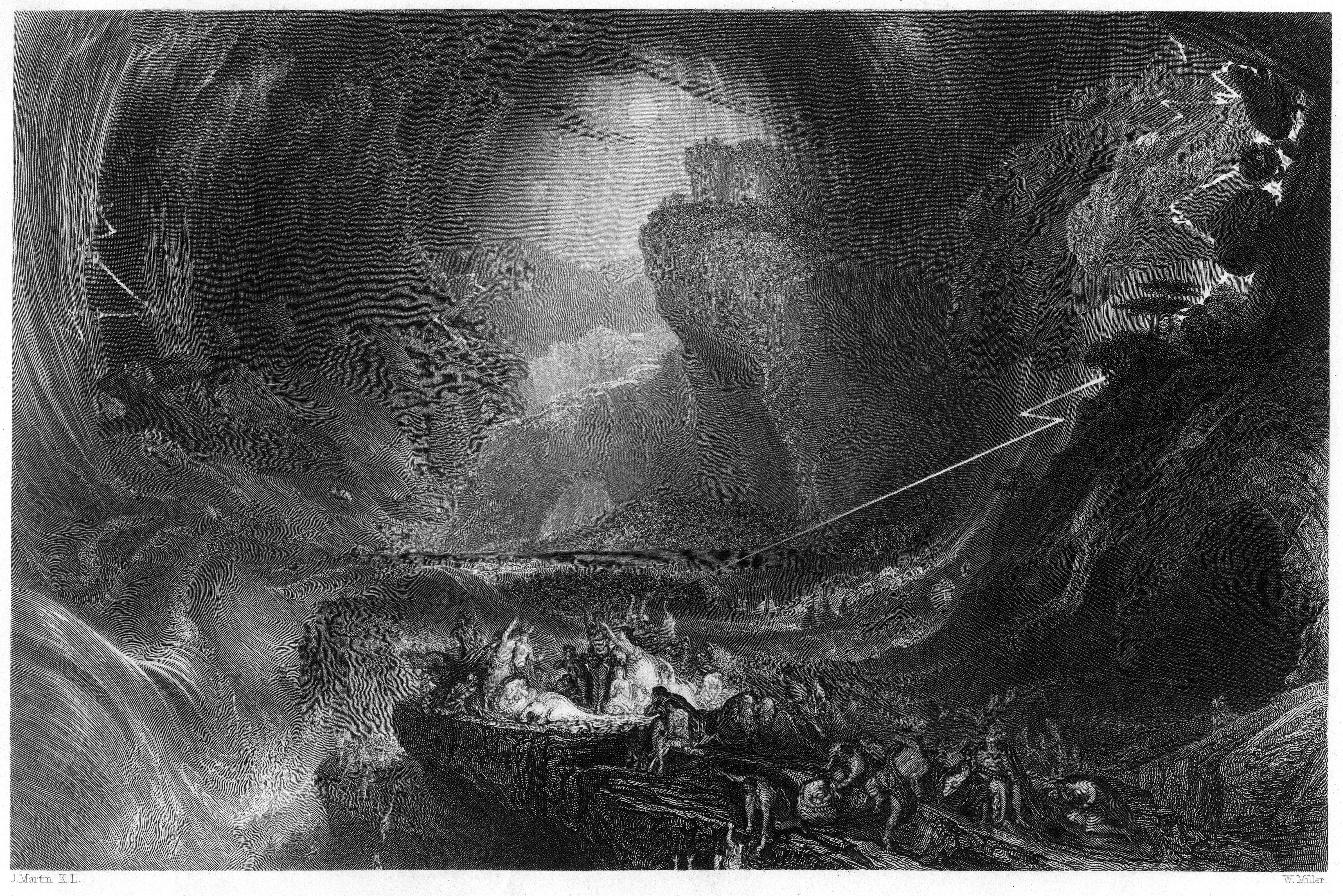 The Deluge engraving by William Miller after John Martin, published in The Imperial Family Bible According to the Authorized Version (John Martin Illustrator) Glasgow, Edinburgh, and London: Blackie & Son. 1844